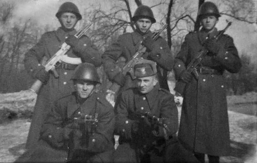 Border Protection Forces in Cieszyn